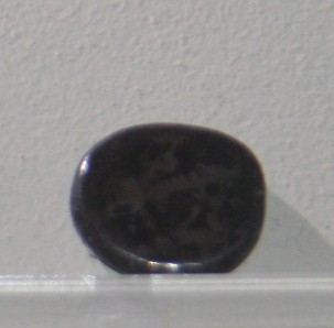 Silver dirhams of Shirvanshah II Manuchohr